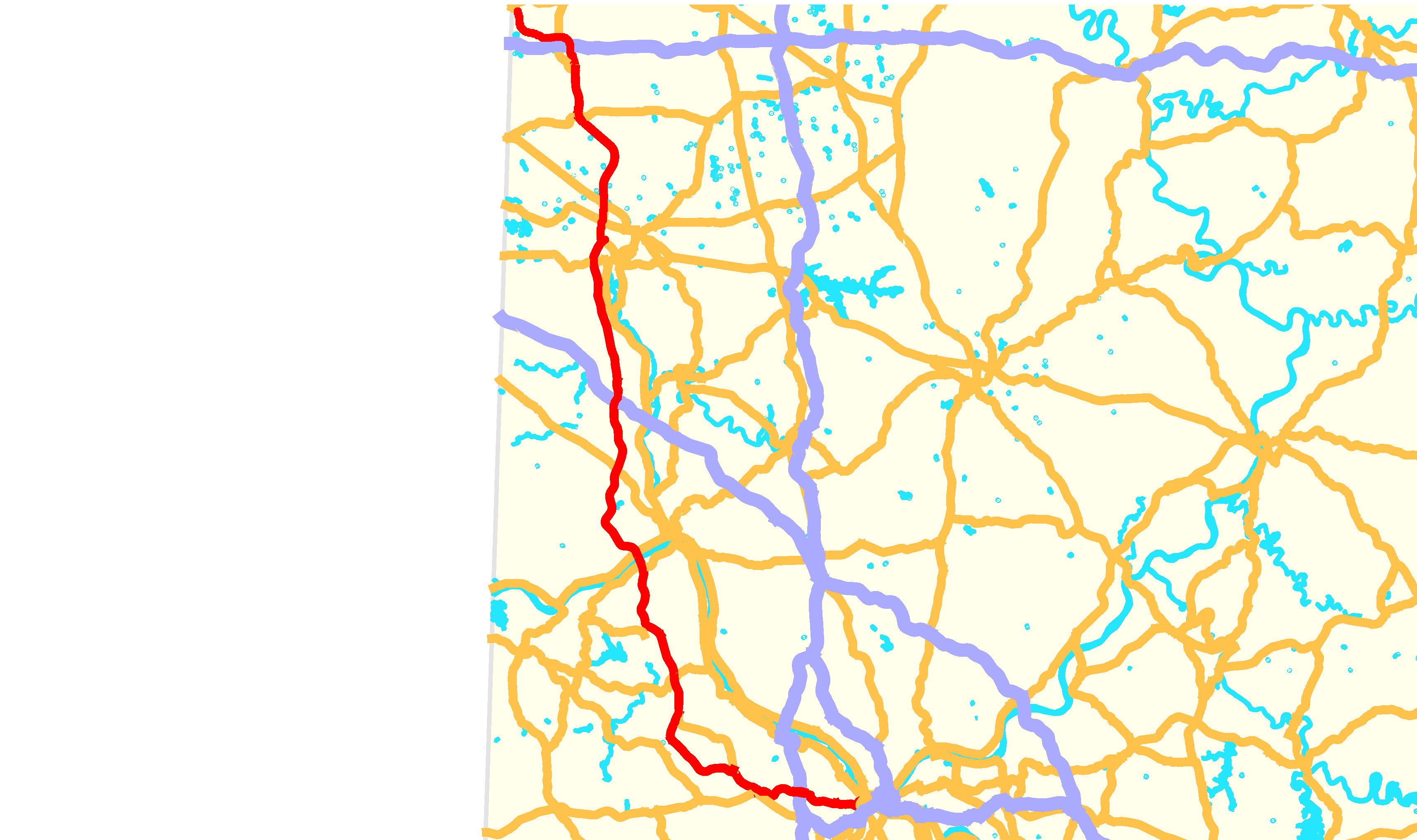 Map of Pennsylvania Route 60's pre-2009 routing.